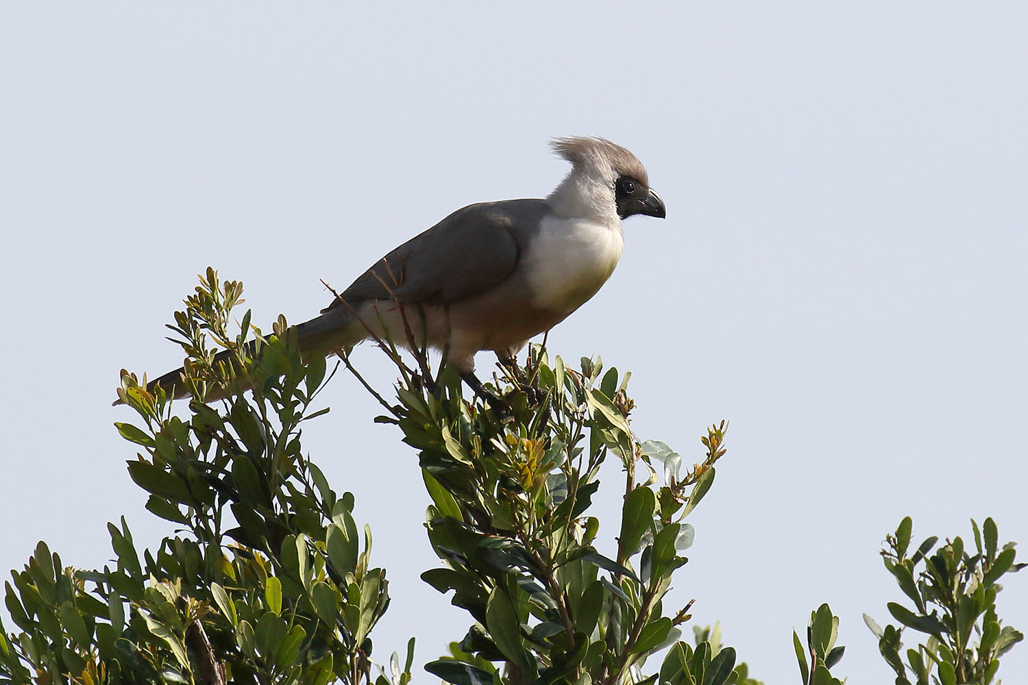 Bare-faced go-away-bird, Masai Mara, Kenya